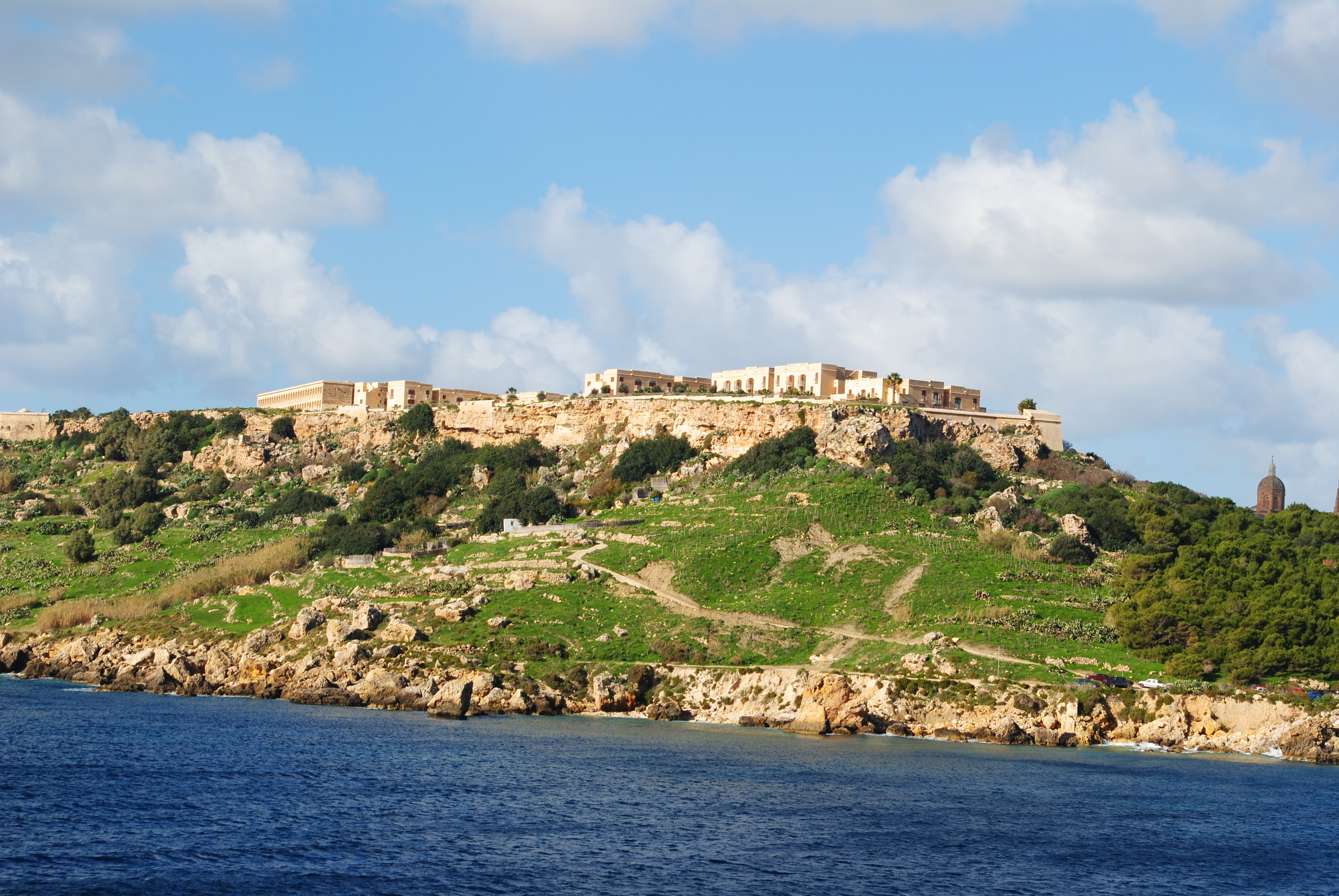 Fort Chambray was a fort situated in the precincts of Għajnsielem, on the island of Gozo, Malta.